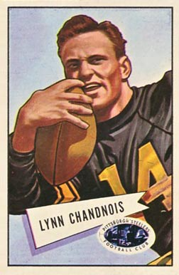 American football player Lynn Chandnois on a 1952 Bowman Large card.